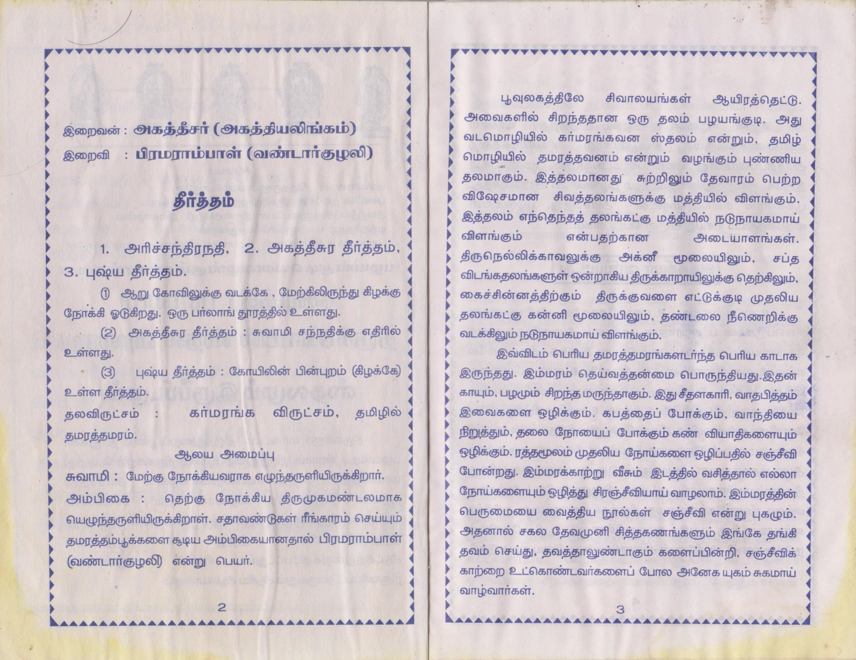 பழையங்குடி அகத்தீஸ்வர சுவாமி தள வரலாறு